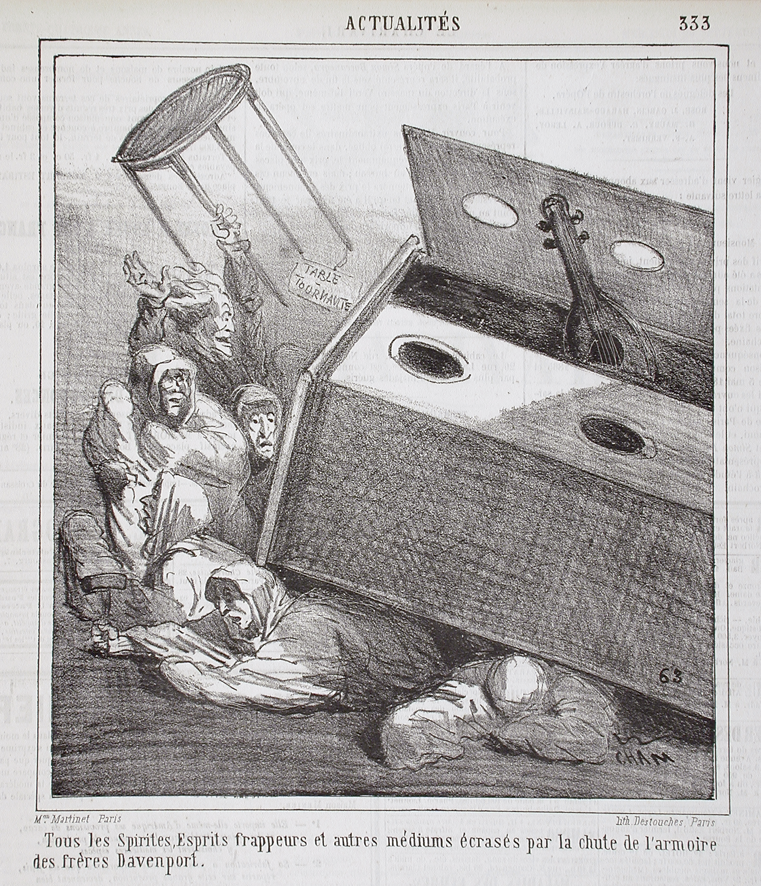 France, 1865 Series: Actualités Periodical: Le Charivari, 20 September 1865 Prints; lithographs Lithograph Gift of George Longstreet (M.76.132.296) Prints and Drawings